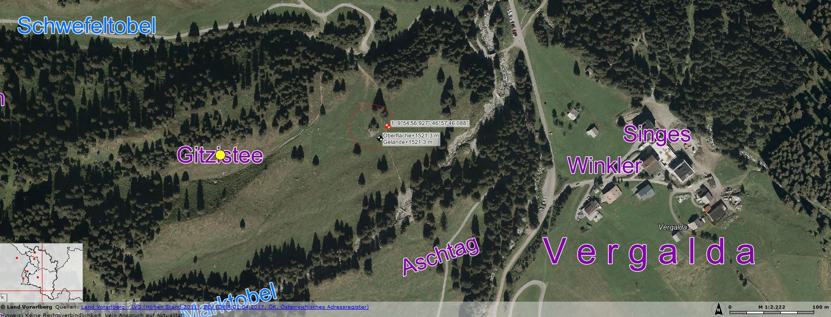 Aerial view of the Gitzistee in Gergellen (Sankt Gallenkirch) in Montafon (Vorarlberg, Austria). Country Vorarlberg - . Open Government Data Vorarlberg is licensed under a Creative Commons Attribution 3.0 Generic